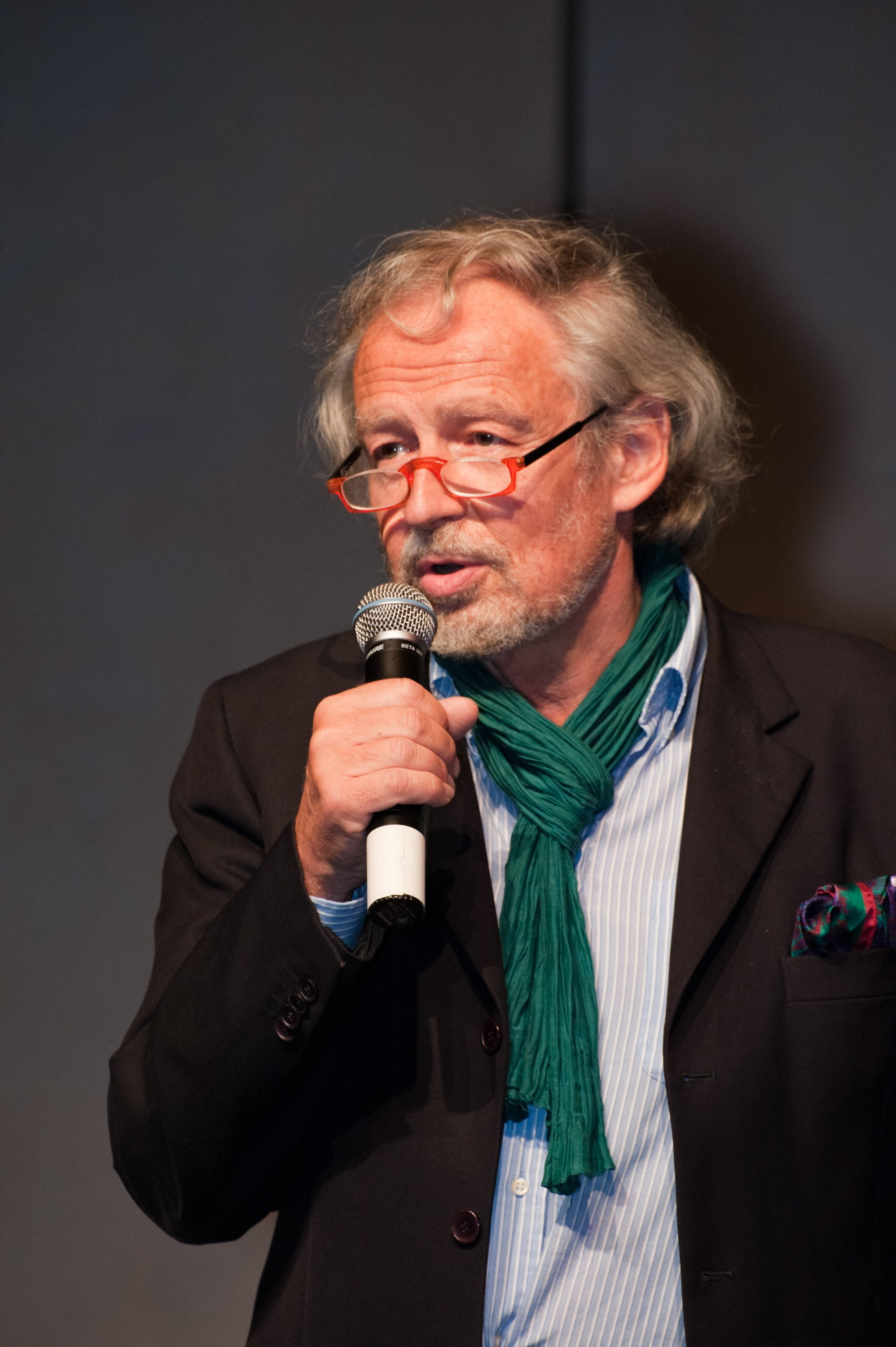 photograph of Hubert Christian Ehalt taken 2010-06-15